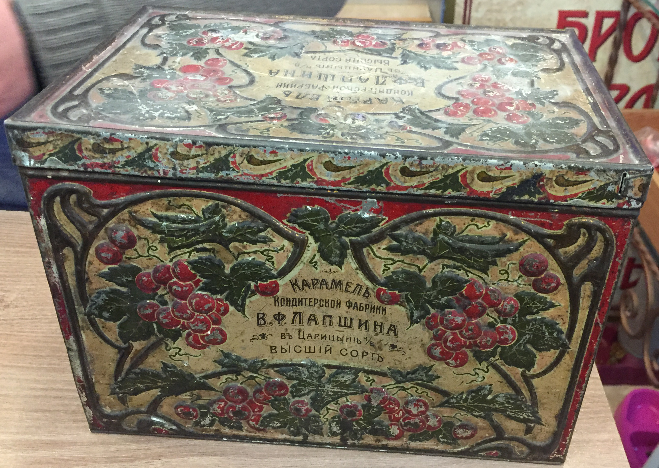 Candy box, Russia, XIX century, V. F. Lapshin confectionary